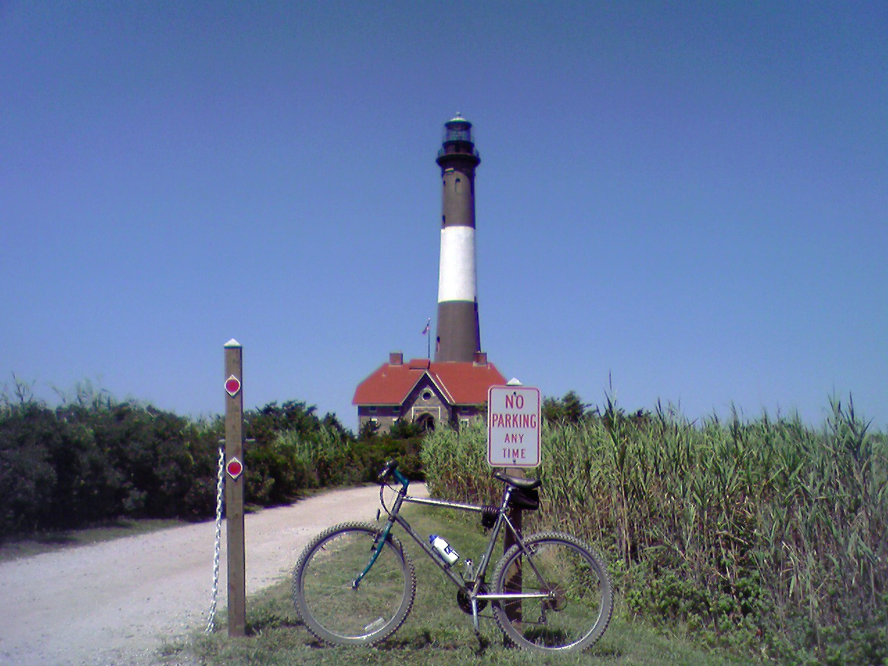 The Fire Island Lighthouse located near the western end of the seashore near Robert Moses State Park - Long Island, NY.